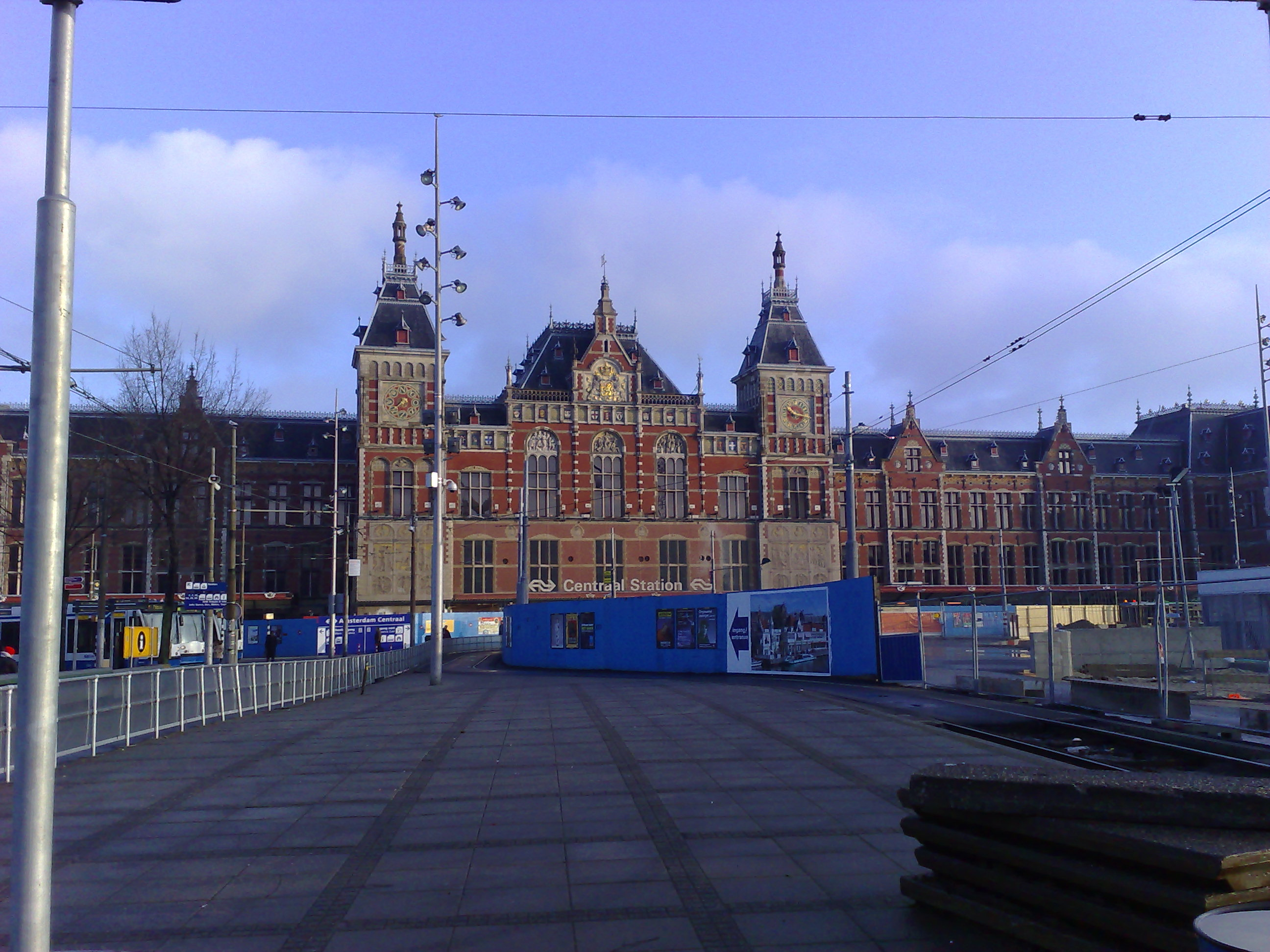 Centraal_Station_-_Jan09